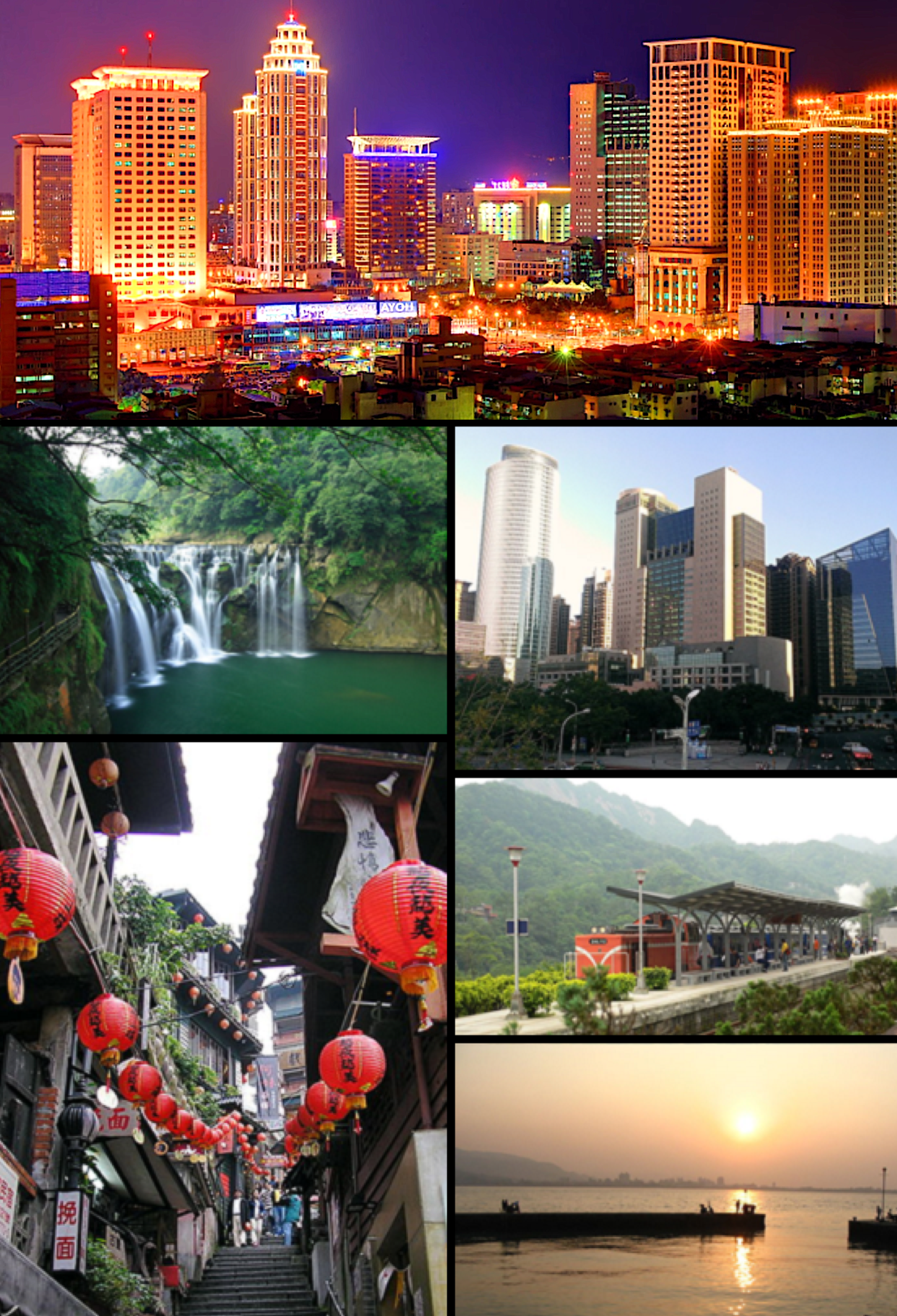 Montage of various New Taipei images. 中文（台灣）: 新北市的拼貼。 Bân-lâm-gú: Sin-pak-tshī ê kíng-sik. 中文（中国大陆）: 新北市的景色。